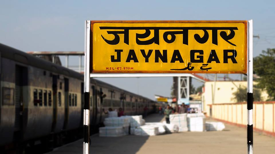 Jainagar railway Station